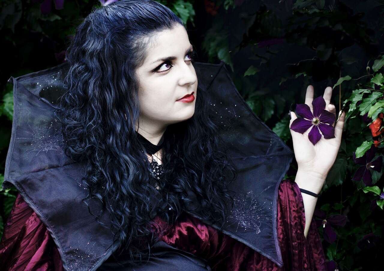 "Yennefer" ("Queen of Winter"). Fantasy rock musical of group "ESSE" -"The Road with No Return", based on the saga of A. Sapkowski "The Witcher". Official poster. Scene 6. Symphonic rock-group "ESSE". Lyudmila Dymkova (Yennefer of Vengerberg). (Poster - Taras Trushkin. Photo - Yuri Osadchy.)